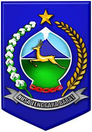 Coat of Arms of Indonesian province of West Nusa Tenggara.